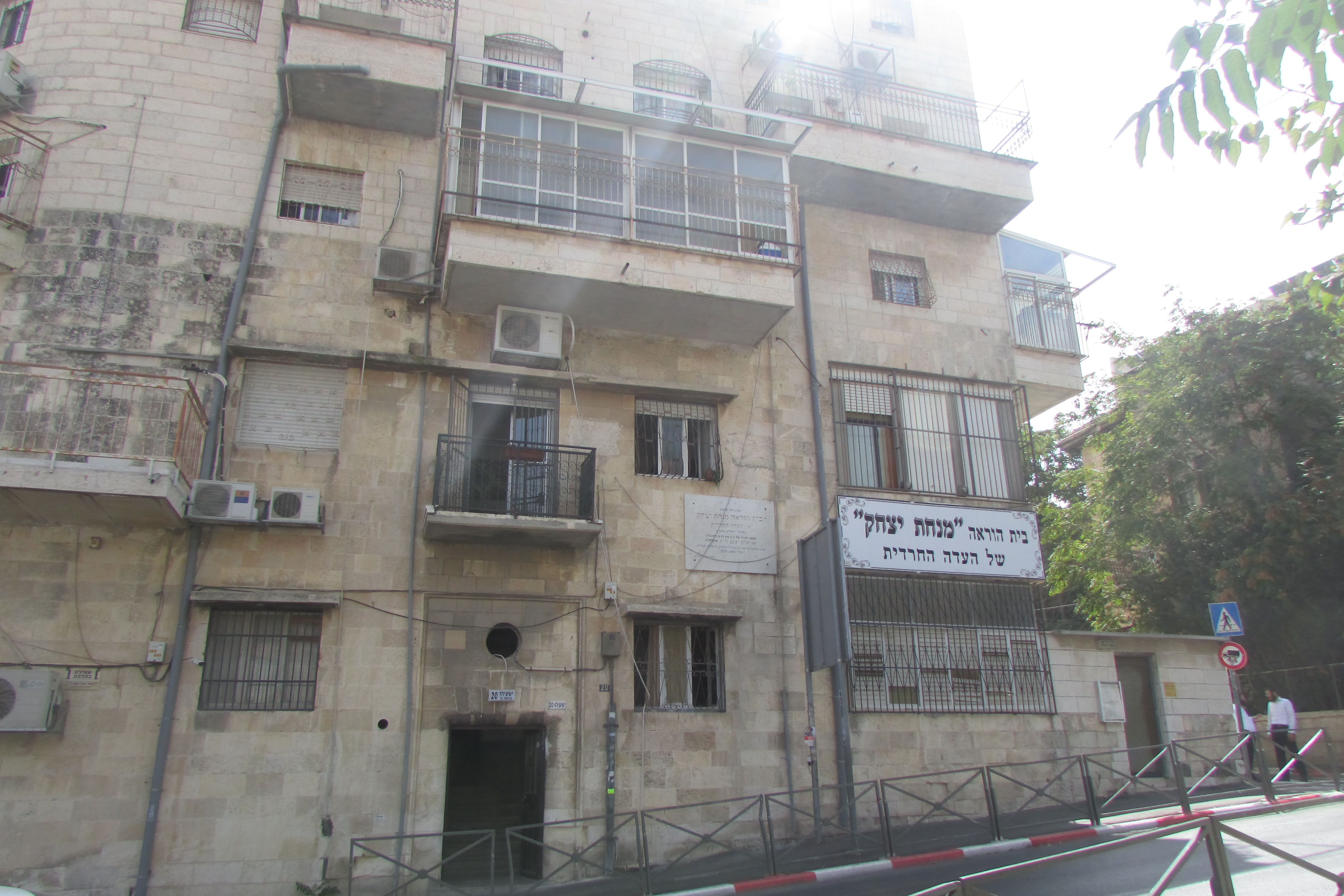 Minchas Yitzchak Beit Midrash in Jerusalem, 20 Yisha'ayahu street